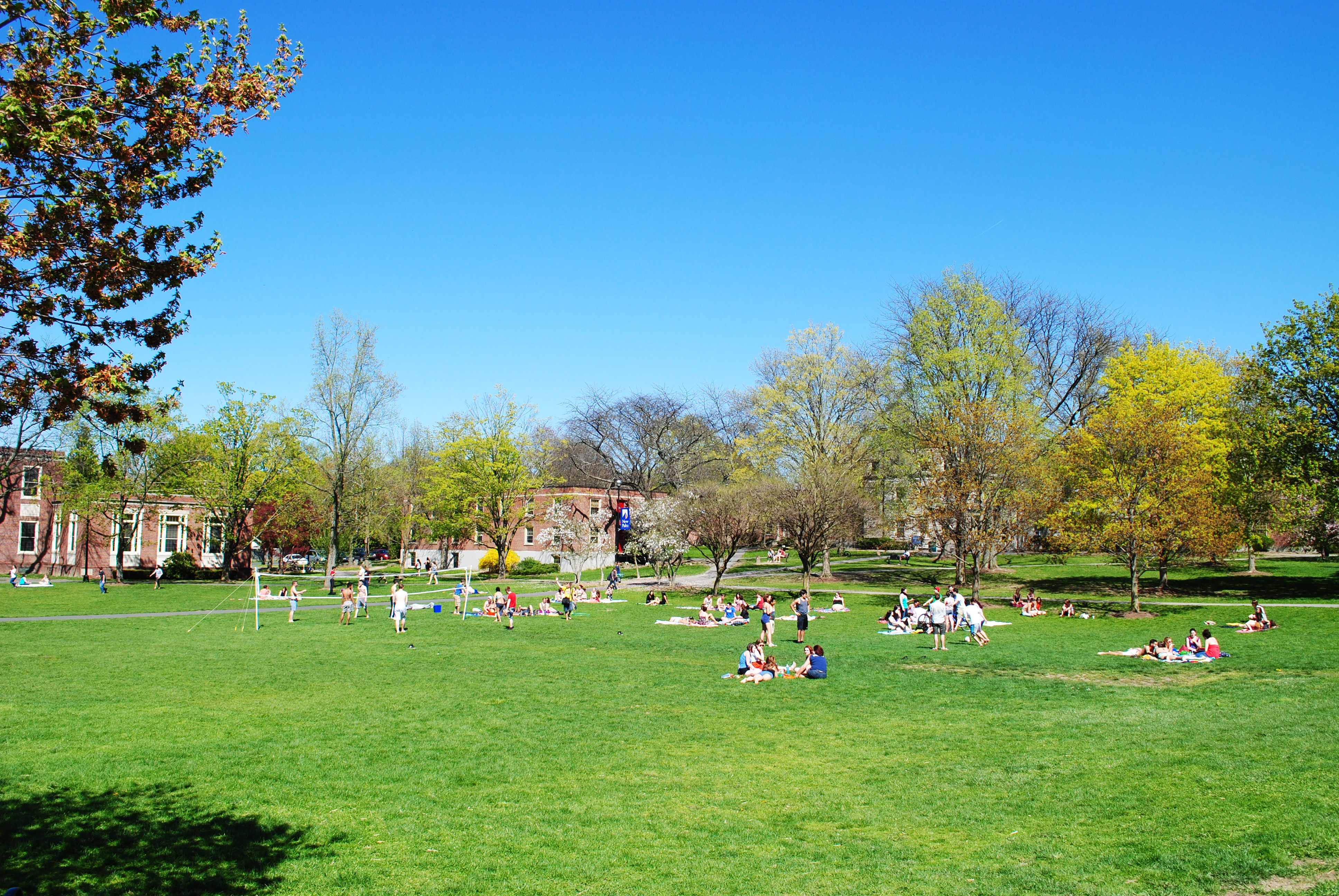 A picture of the Old Main Quad aka "The Quad" at SUNY New Paltz in New Paltz, NY.